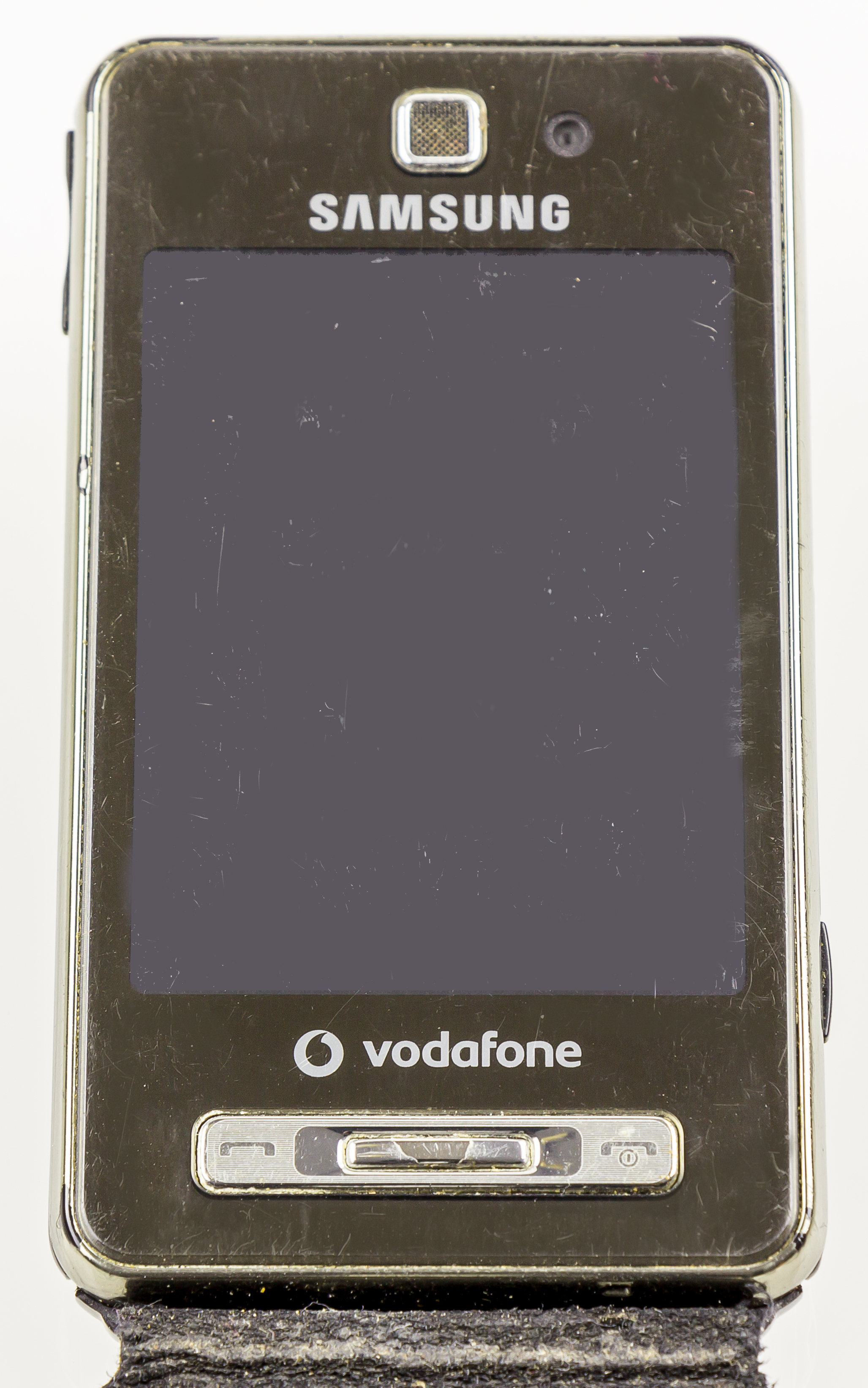 Samsug SGH-F480V